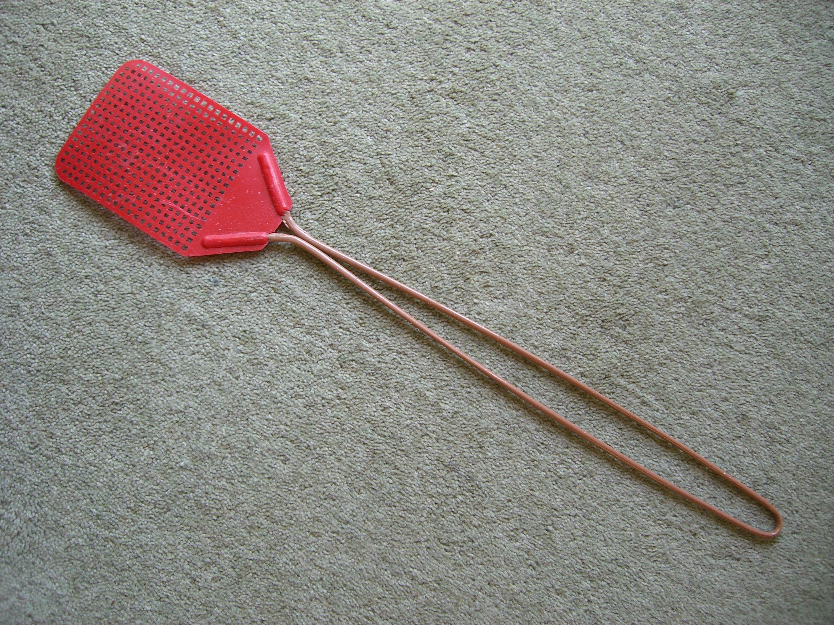 Fly swatter